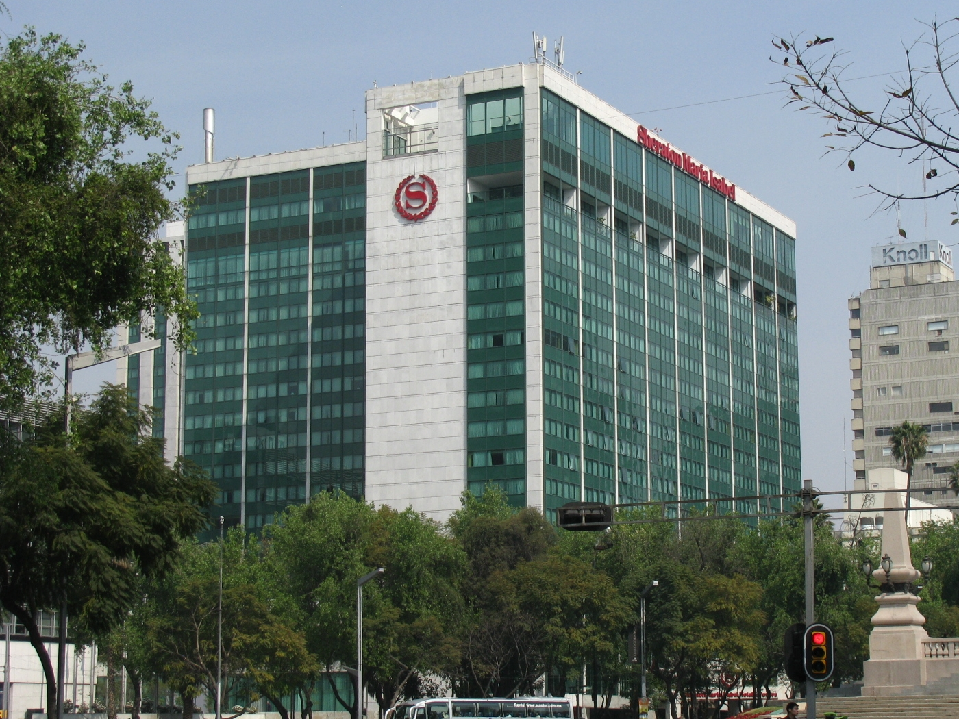 The Sheraton Maria Isabel Hotel on Paseo de la Reforma avenue in Mexico City.